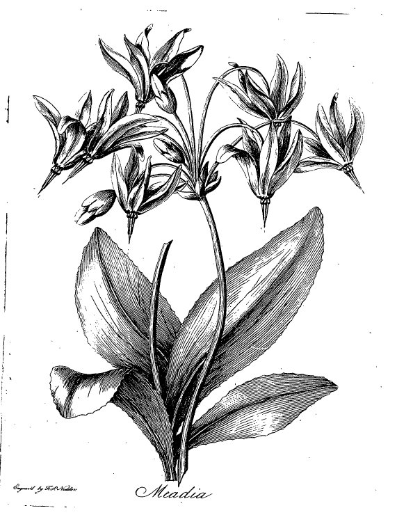 Illustration of Meadia from The Botanic Garden by Erasmus Darwin